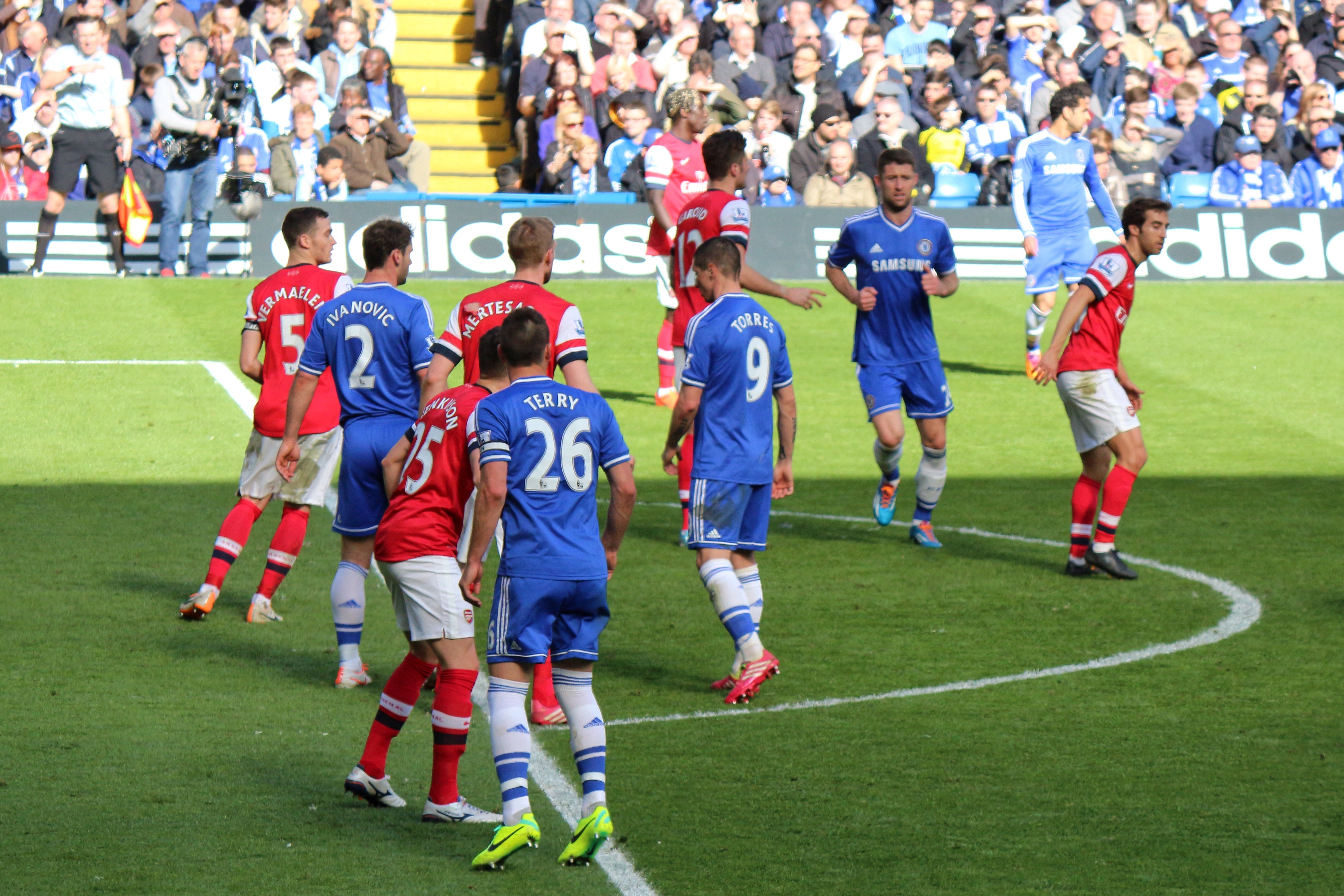 Premier League match between Chelsea and Arsenal at Stamford Bridge on 22 March 2014.